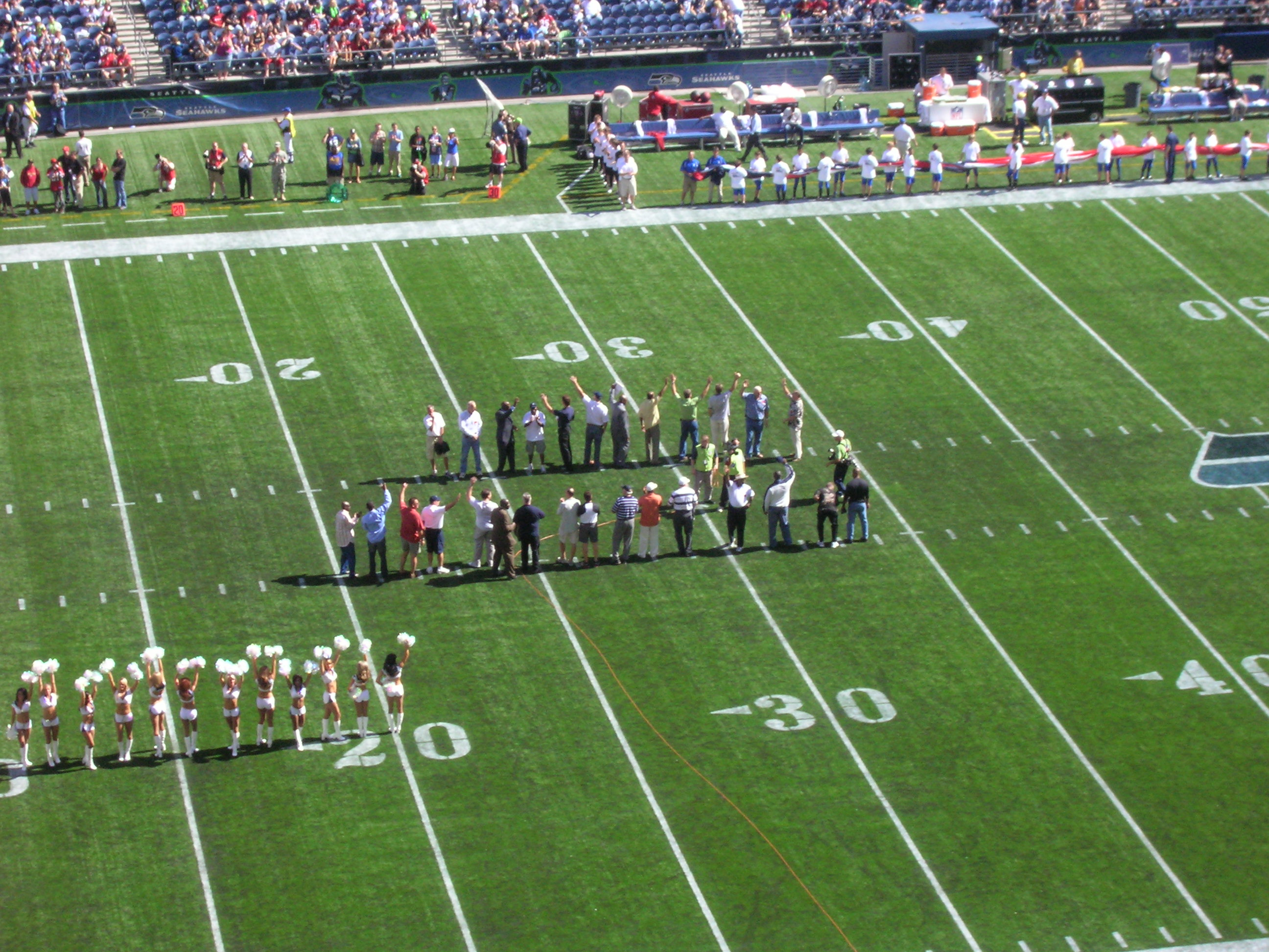 Picture of several Seahawks alumni saluting the East sideline at Qwest Field prior to kickoff of the home opener vs the San Francisco 49ers.